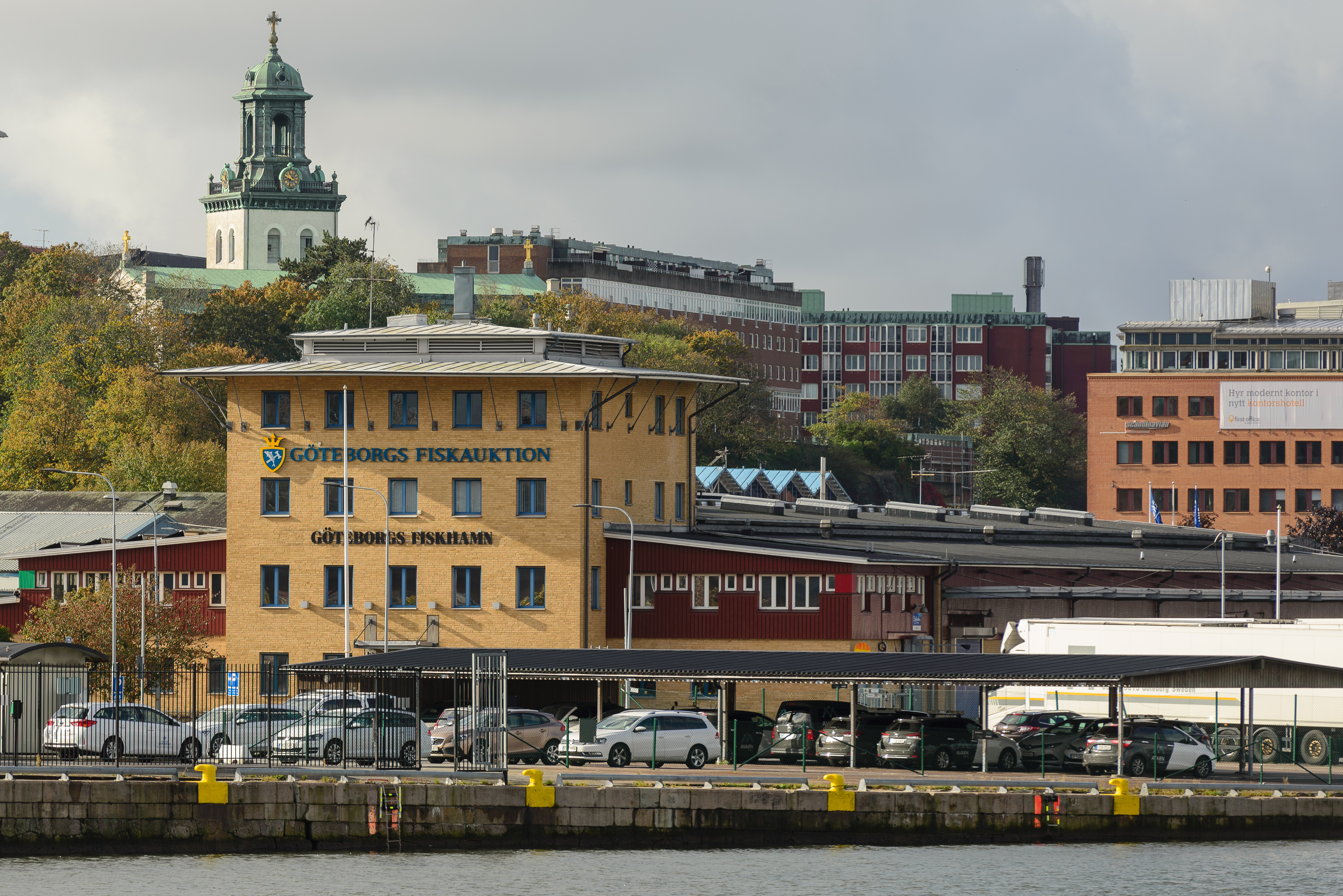 Göteborgs fiskauktion (Gothenburg fish auction).